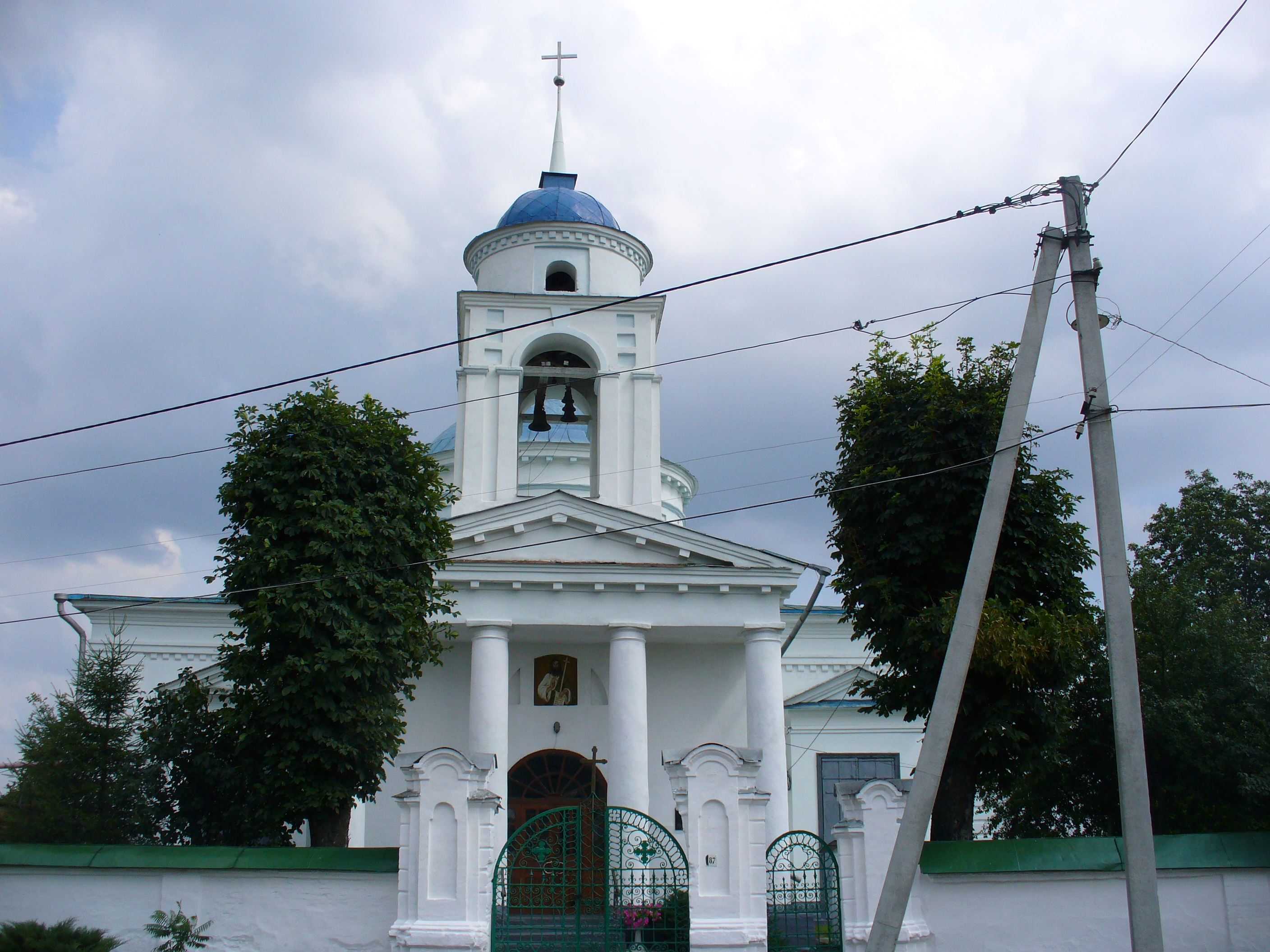 The photography of the church of the Nativity of John the Baptist in Luka, a suburb of Sumy